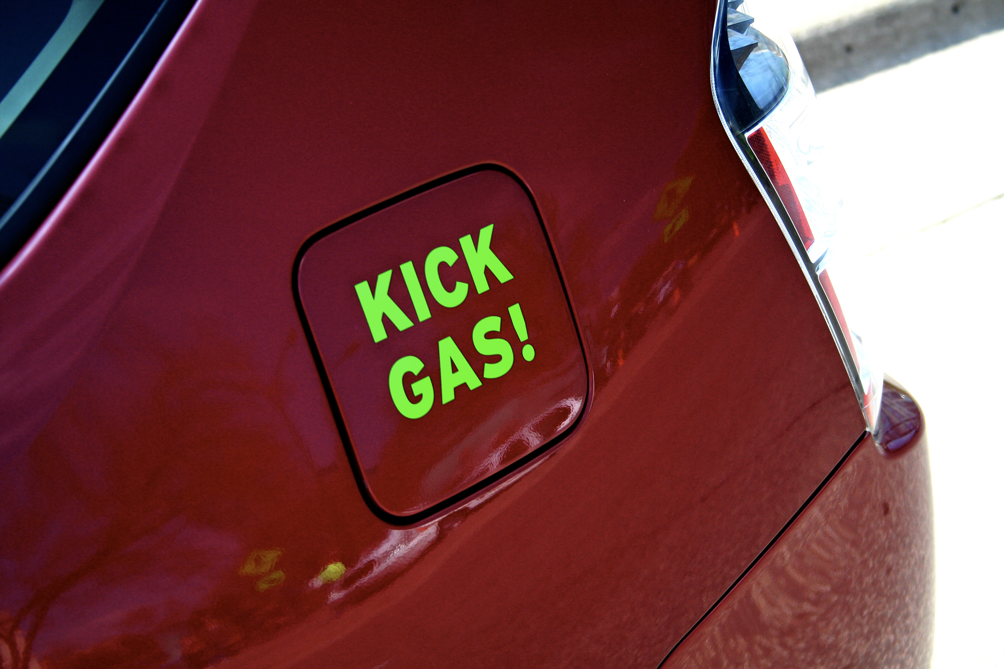 Kick Gas: Toyota Prius, 100MPG - Step it Up 4/14/2007